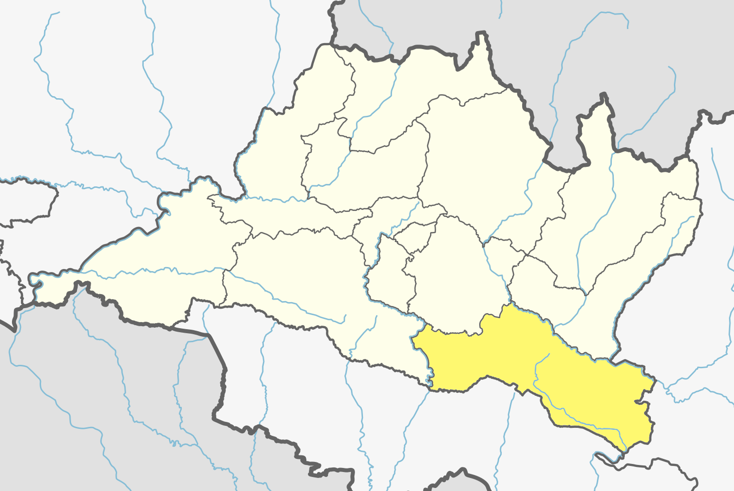 A district of Bagmati Pradesh